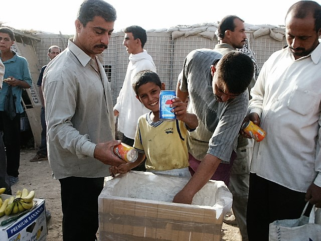 The Black Market, cold beverage merchant, Baghdad outside the gates of Camp Taji, Oct 2004